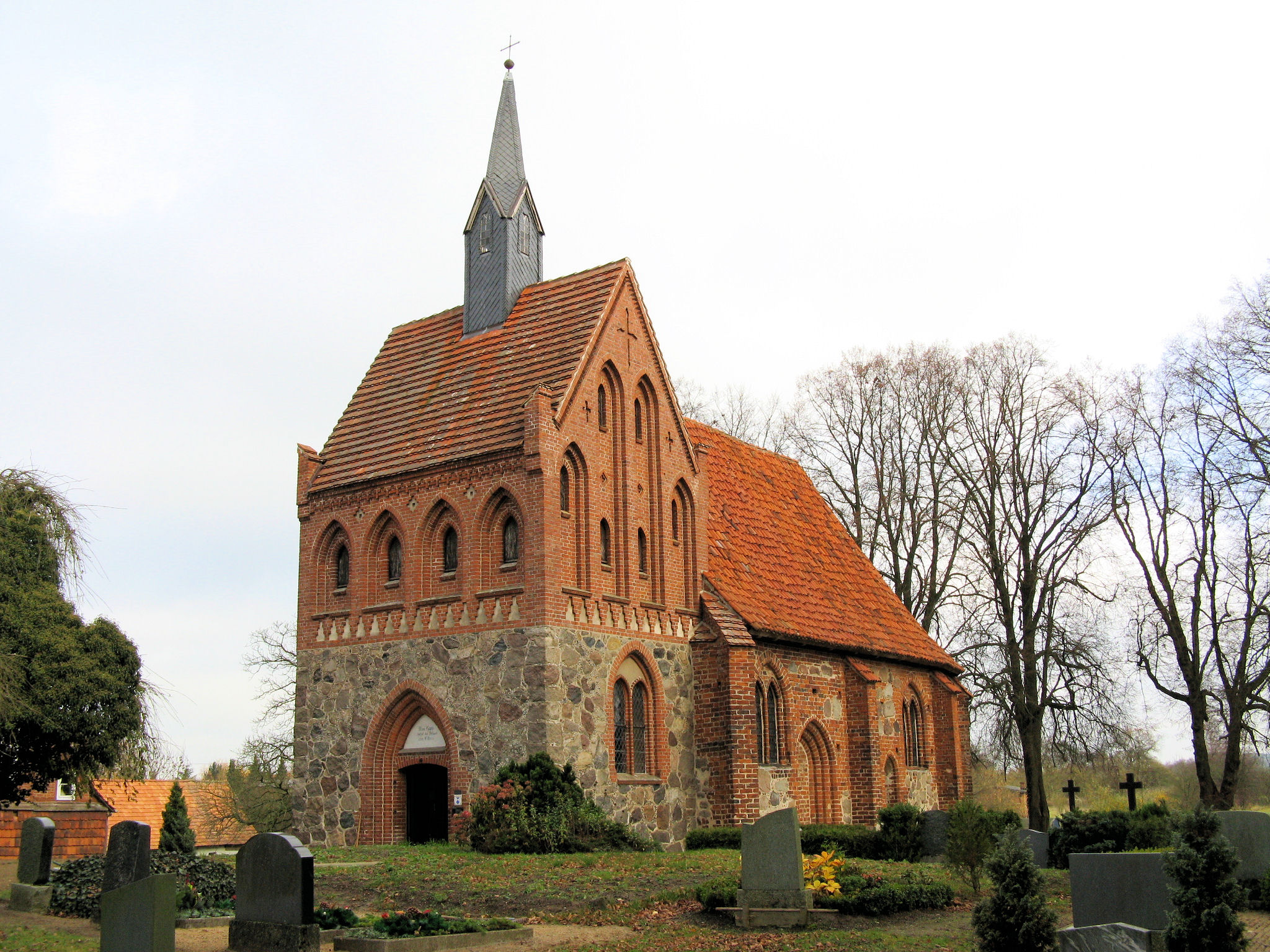 Church in Bäbelin, Mecklenburg-Vorpommern, Germany